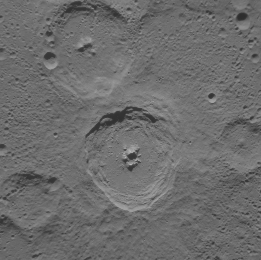 Spitteler crater on Mercury (near center). MESSENGER Narrow Angle Camera image. Approximate north is in upper left. Emission Angle: 27.1 Incidence Angle: 69.9 Latitude: -68.8 Longitude: 300.5 Phase Angle: 70.3